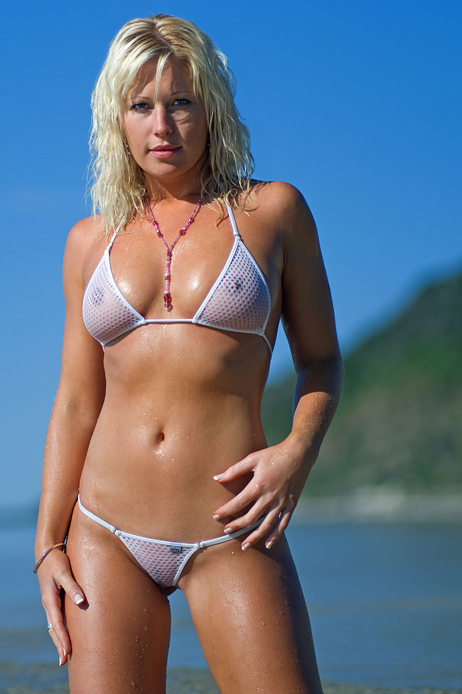 See-through, white mesh bikini.